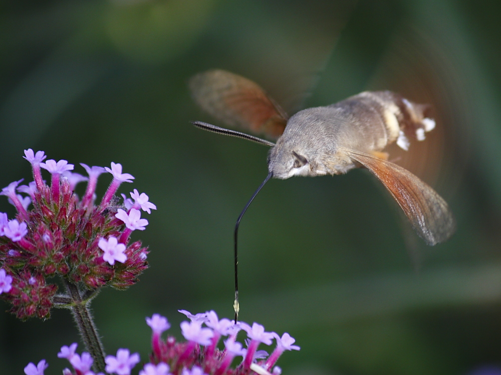 Macroglossum stellatarum, Hummingbird Hawk-moth